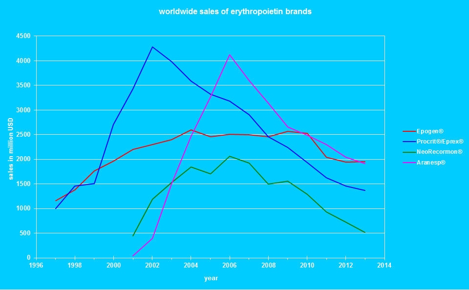 Global sales of erythropoietin brands